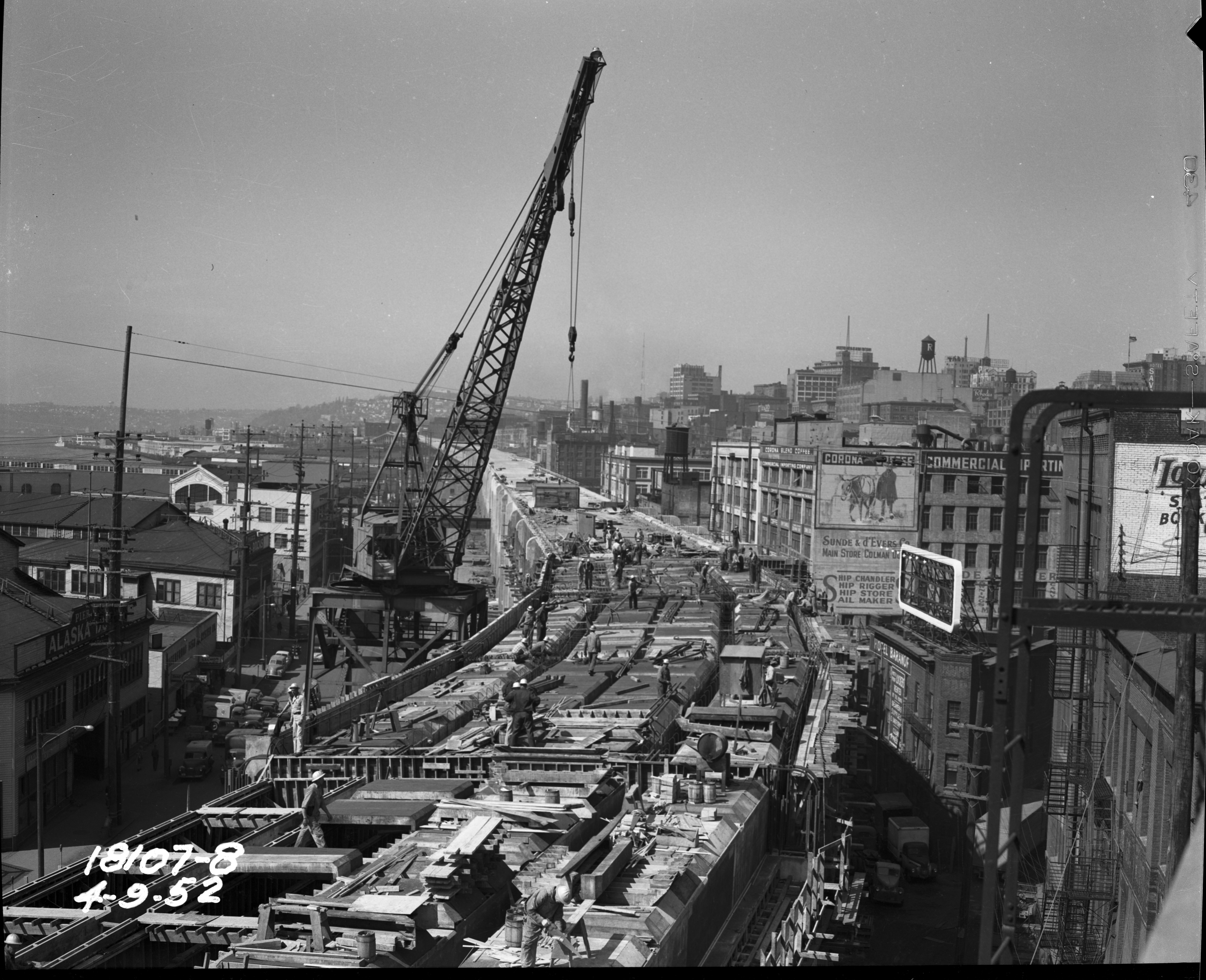 Alaskan Way Viaduct under construction, Seattle, Washington 1952. View is probably from atop a building between S Main St and S Washington St. The buildings in the foreground on the left were eventually torn down to build the Washington State Ferry Terminal.